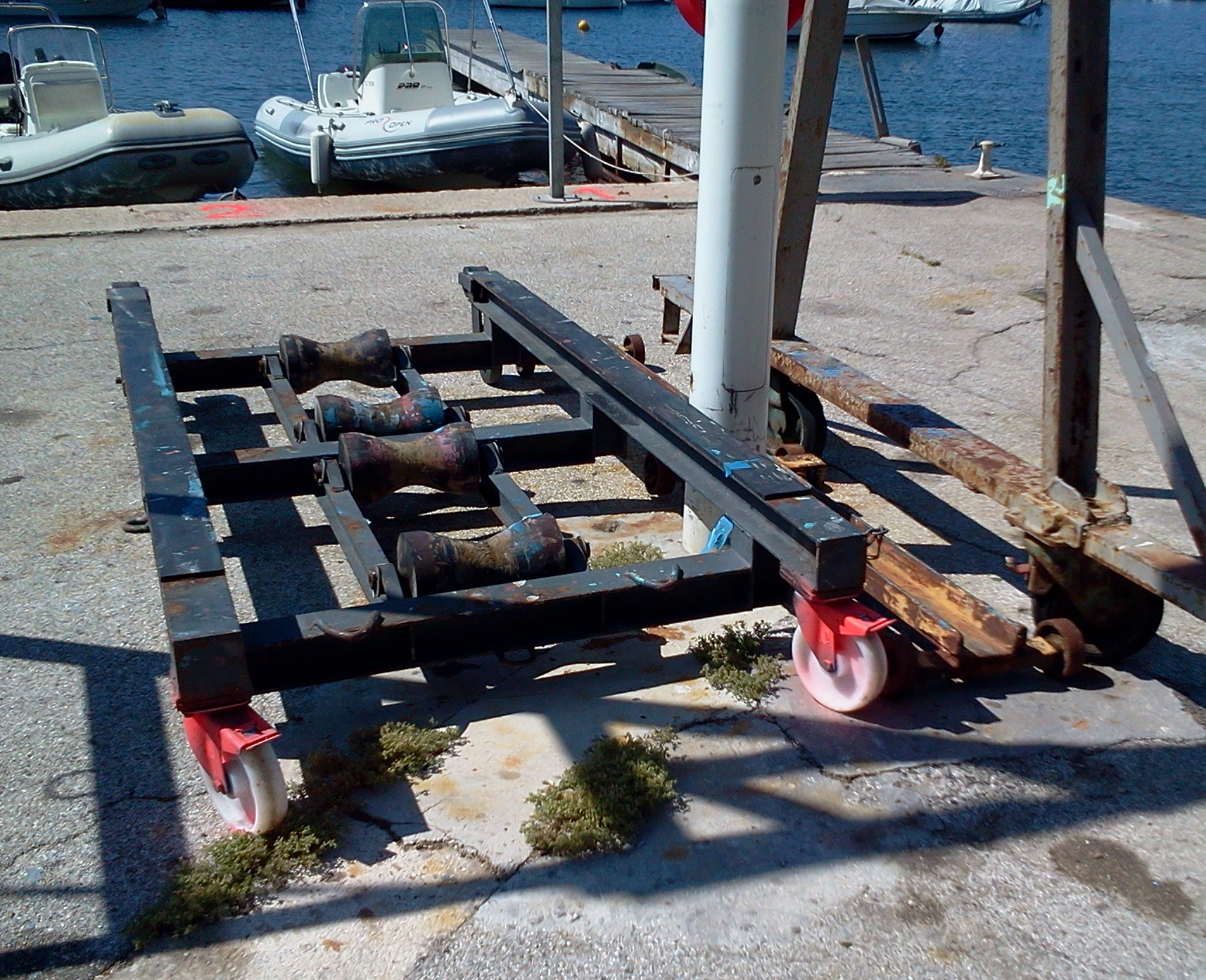 Wheeled boat cradle